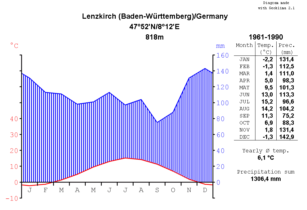 climate chart of Lenzkirch, Baden-Württemberg, Germany, for the period of time from 1961 to 1990, in the format by Walter and Lieth, metric, °Celsius and millimeters, chart made with Geoklima 2.1, label in English